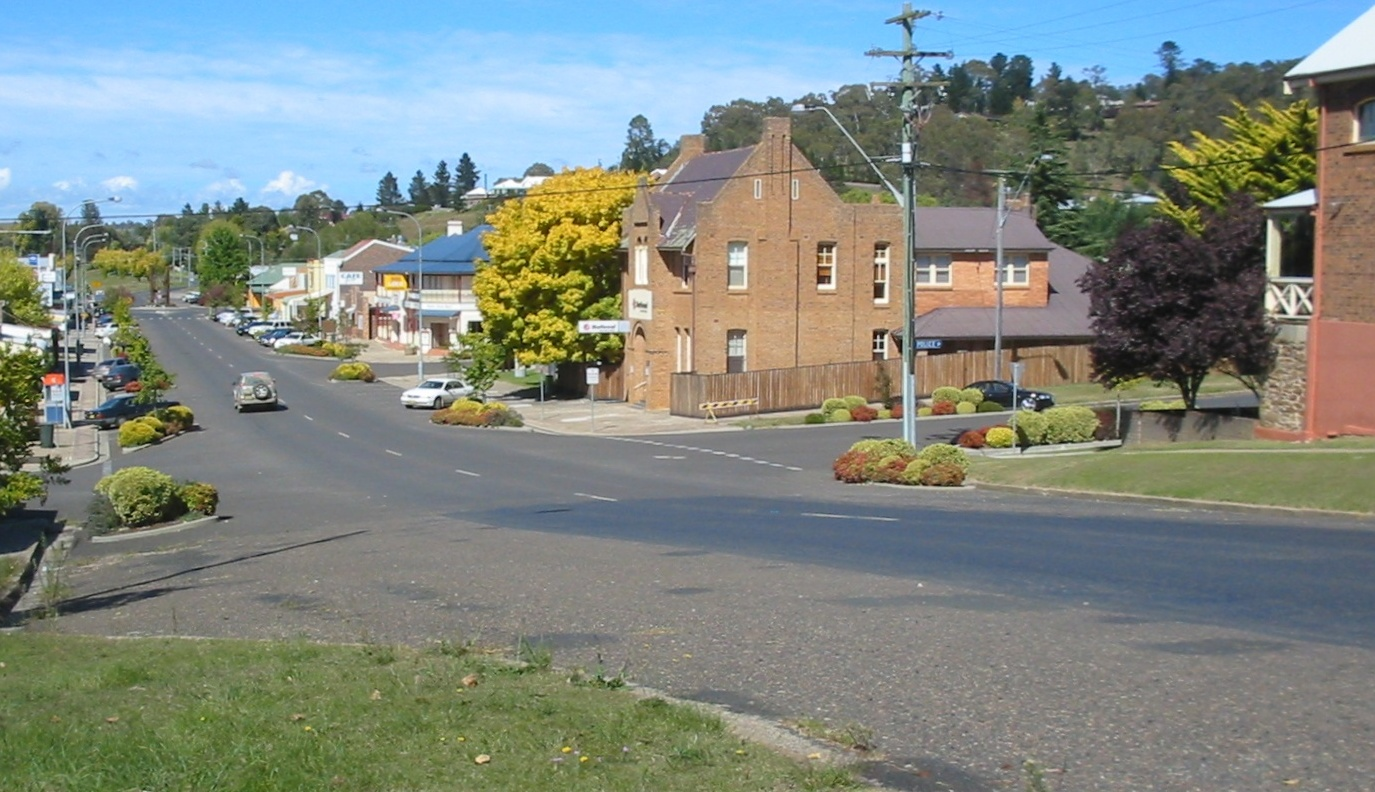 Derby Street (part of Thunderbolts Way), Walcha, NSW.